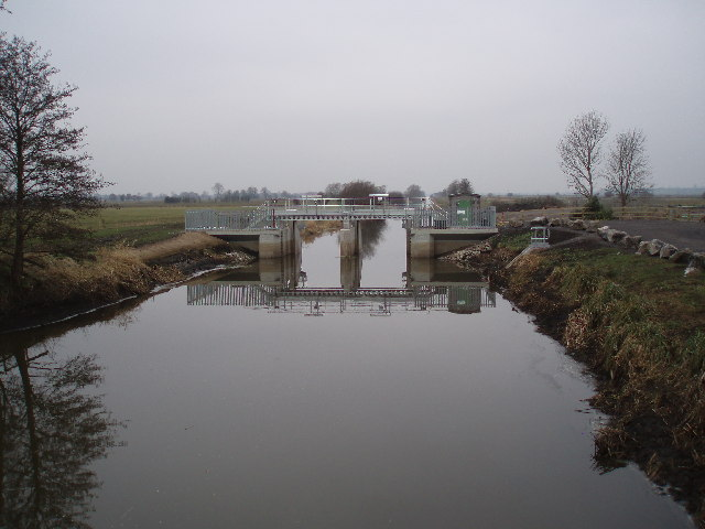 Greylake Sluice. Living up to its name on a dull January day, the Greylake Sluice was built in 1942 to control the flow of water in the King's Sedgemoor Drain. In times of flood large tracts of adjacent farmland are sometimes under water.